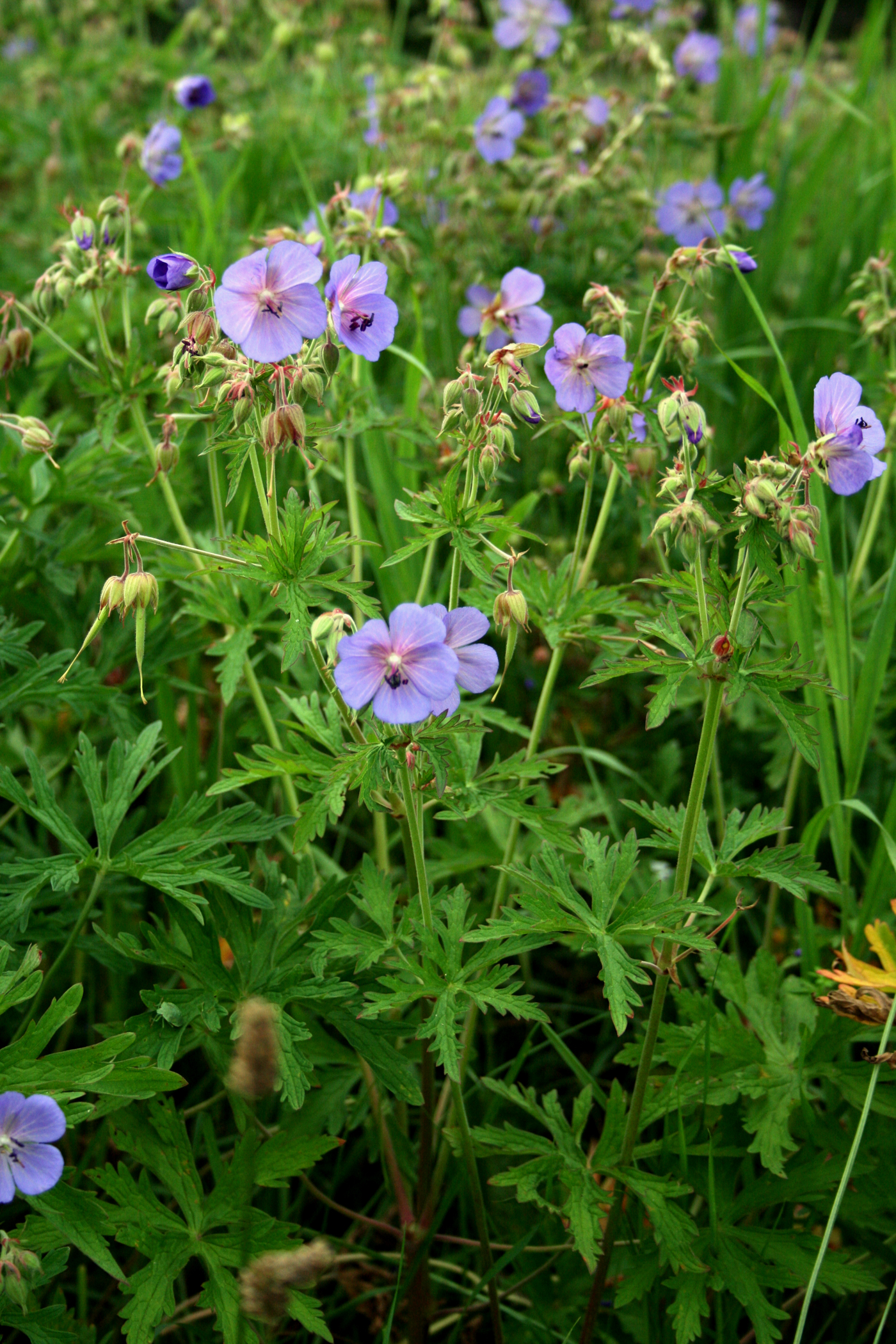 Geranium pratense, East Bohemia, Europe Kakost luční Date=July 2007 Author=Karelj